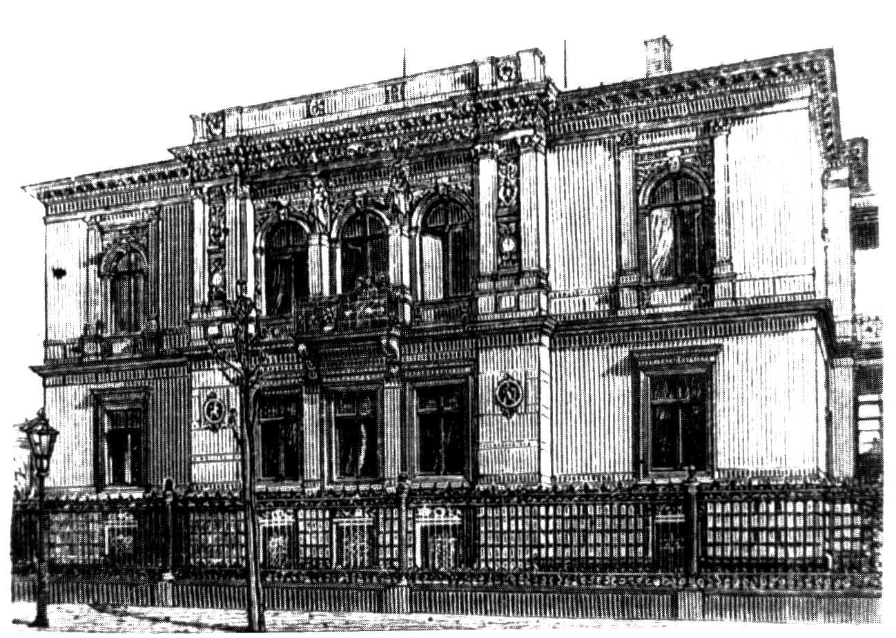 Dresden Villa Häbler Beuststraße 2